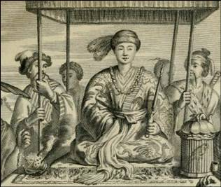 Geng Jimao, known to the Dutch as the "Young Viceroy of Canton"